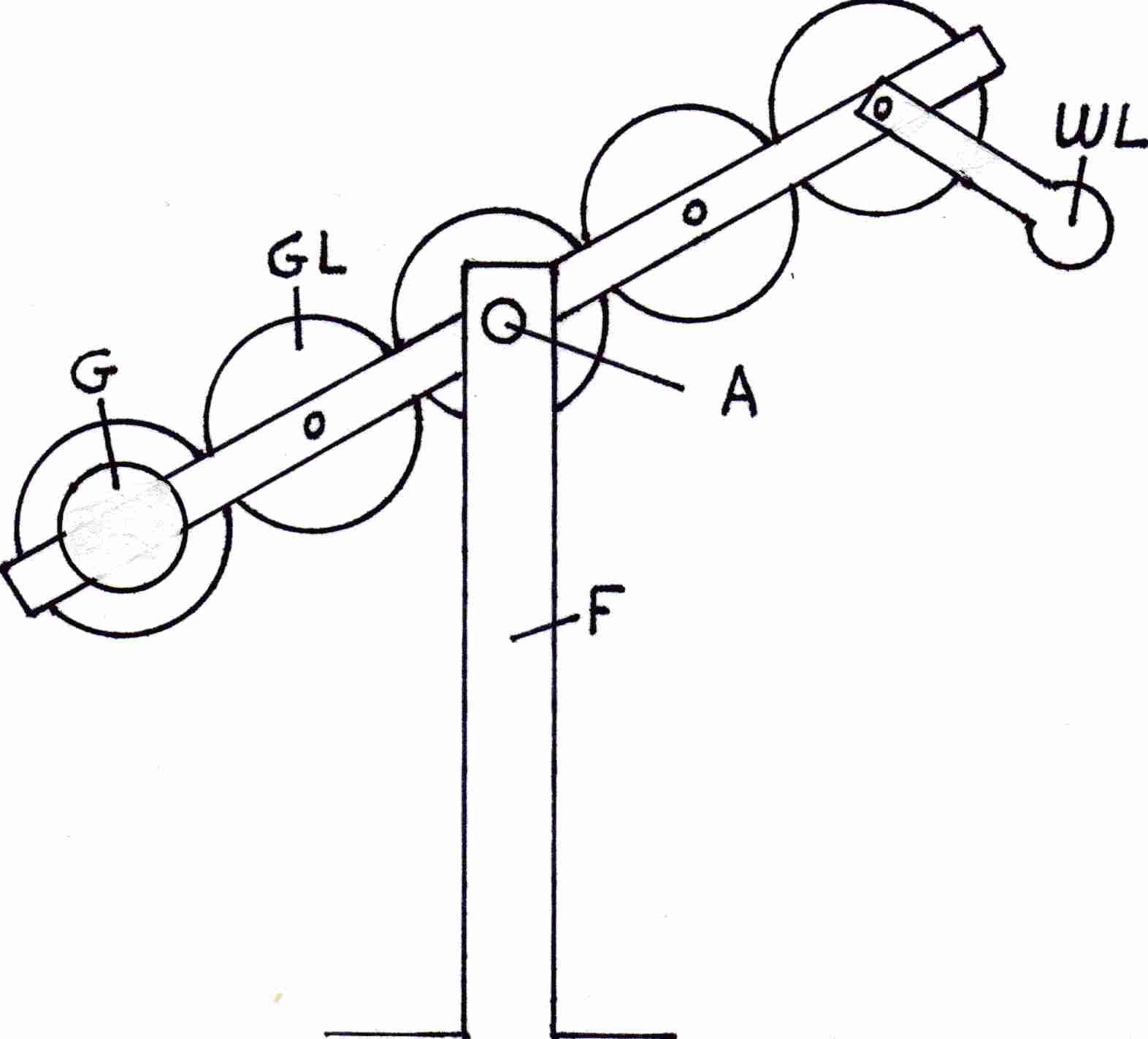 A gear balance. A = Axle, F = Frame, G = Generator, GL = geared linkage, WL = weighted lever. Counter weight will be added for balance. All the gear linkage are free running on the rotating frame.